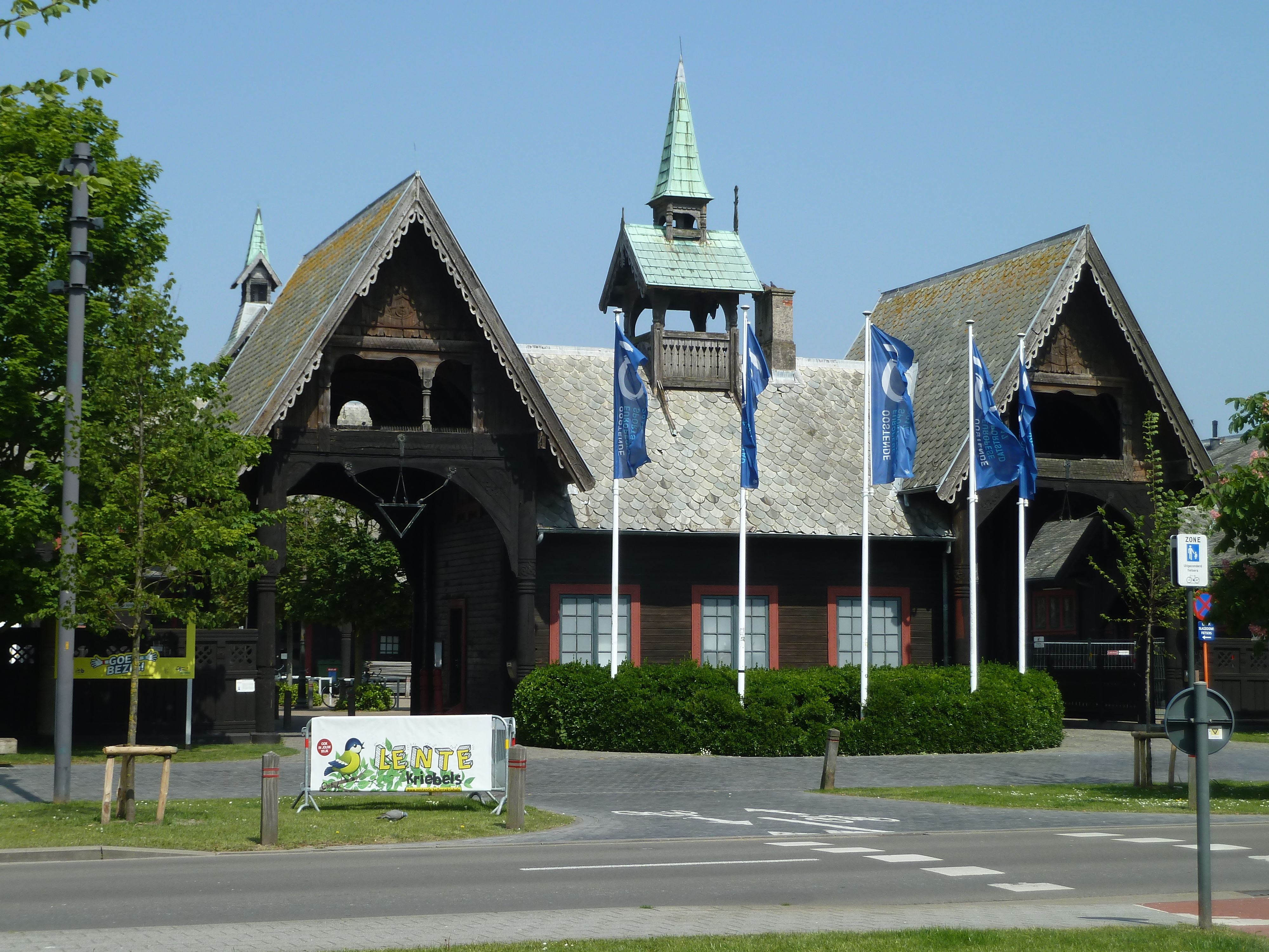 kon stallingen oostende